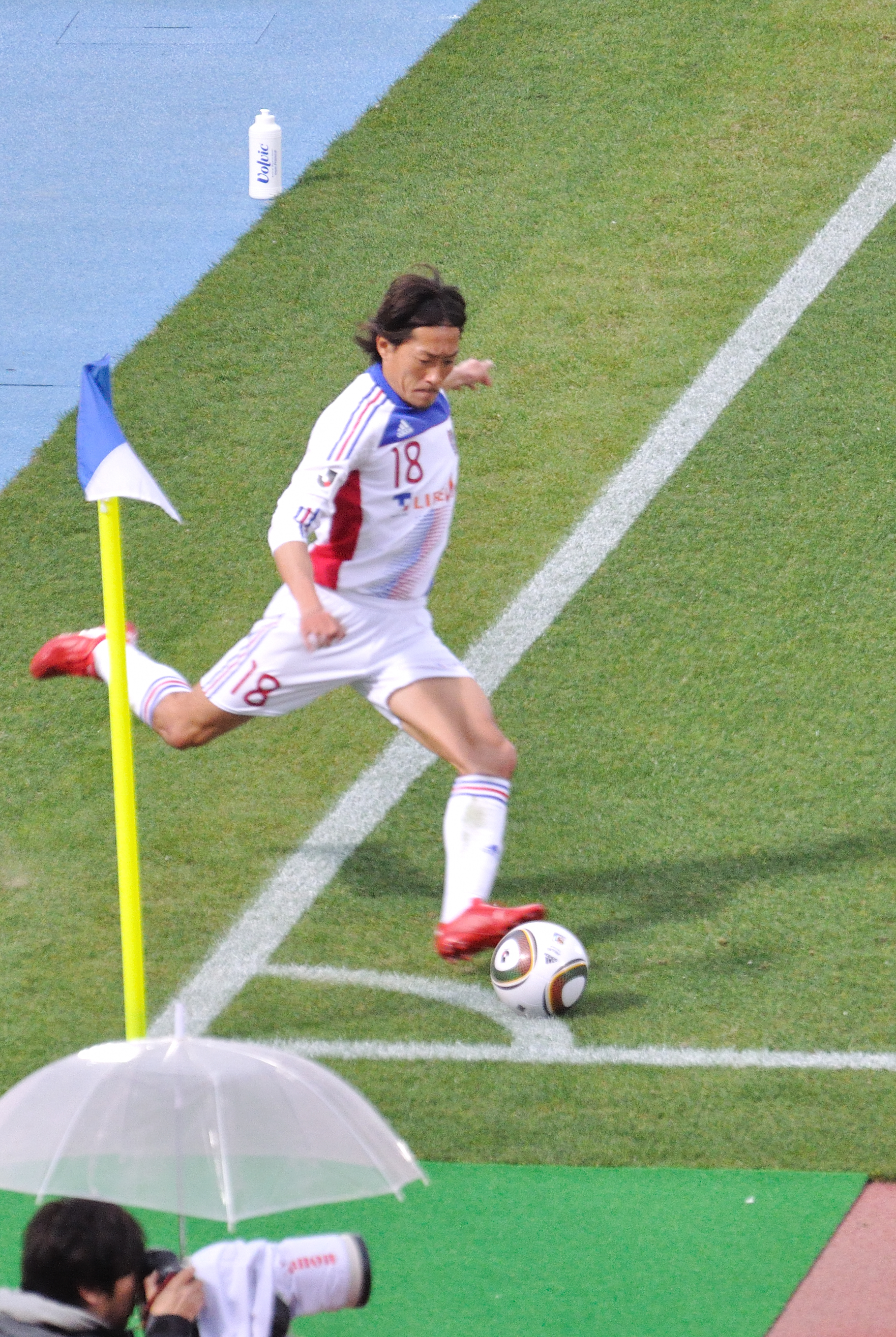 Naohiro Ishikawa - corner cropped from Kawasaki Frontale vs FC Tokyo